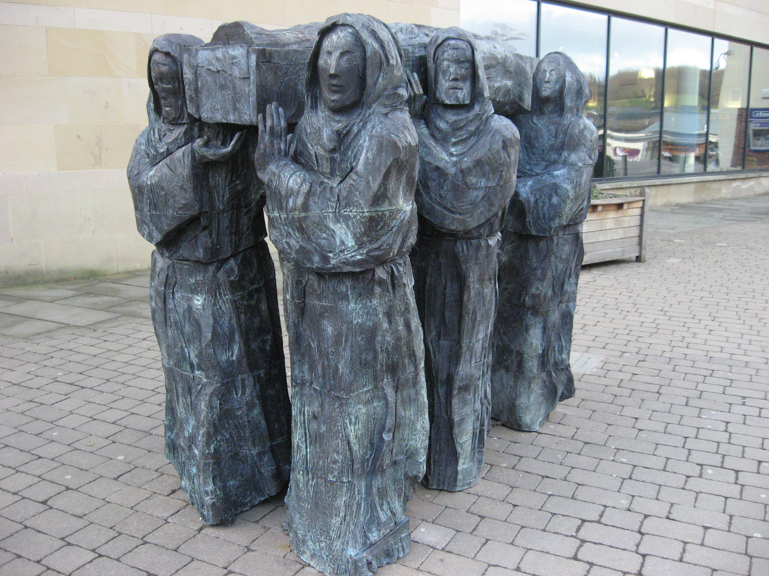 A piece of public artwork in wood by Fenwick Lawson called the Journey, showing the coffin of Saint Cuthbert of Lindisfarne being carried by 6 monks, eventually to Durham.